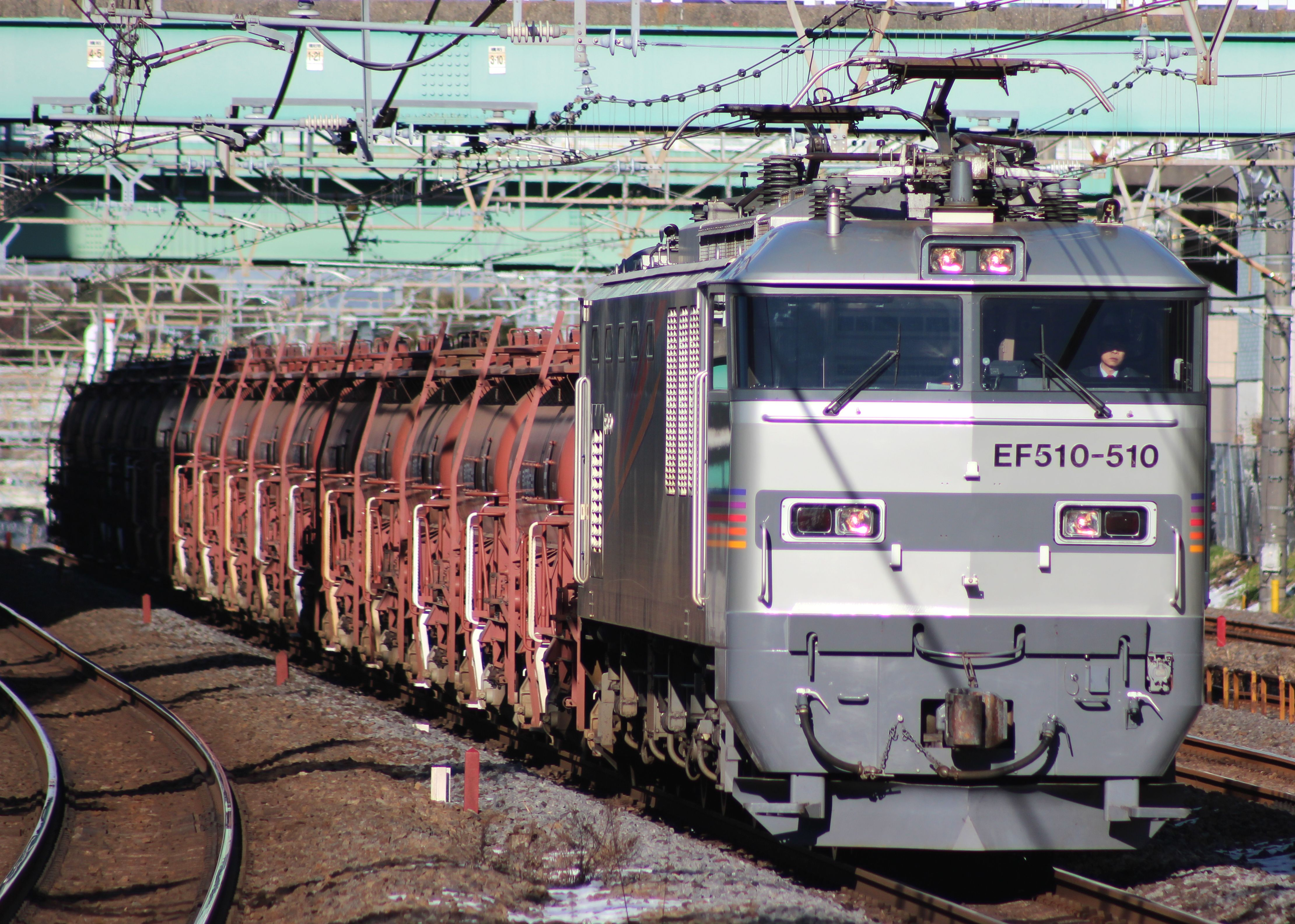 JR East Class EF510-500 electric locomotive EF510-510 on a Joban Line freight working